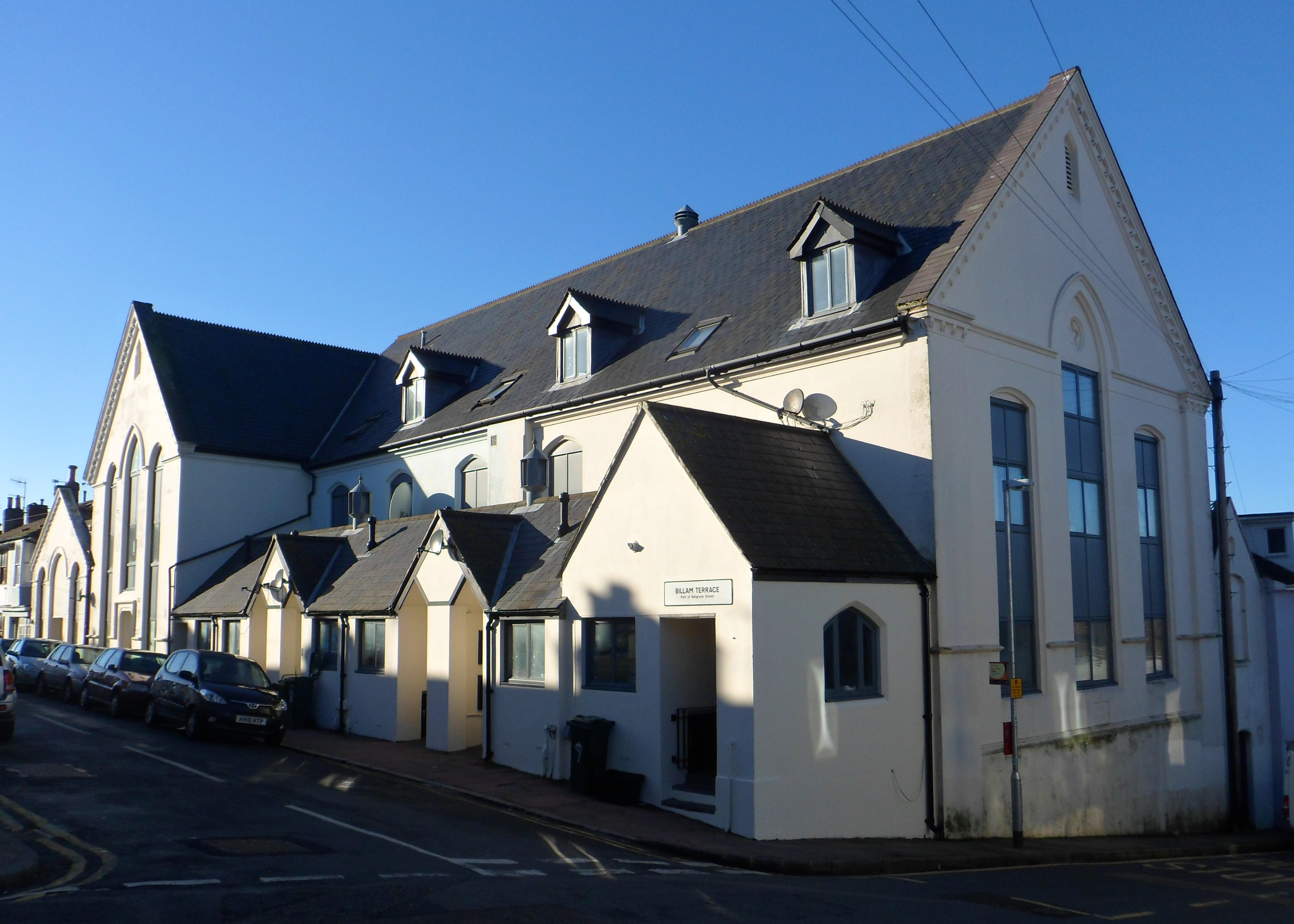 Former Congregational Chapel, Belgrave Street, Hanover, City of Brighton and Hove, England. Built in either 1859 or 1865 (sources differ) to the design of Thomas Simpson as a schoolroom and Congregational chapel. These uses ceased in 1942, after which the building became an annexe of Brighton Polytechnic and, later, flats.